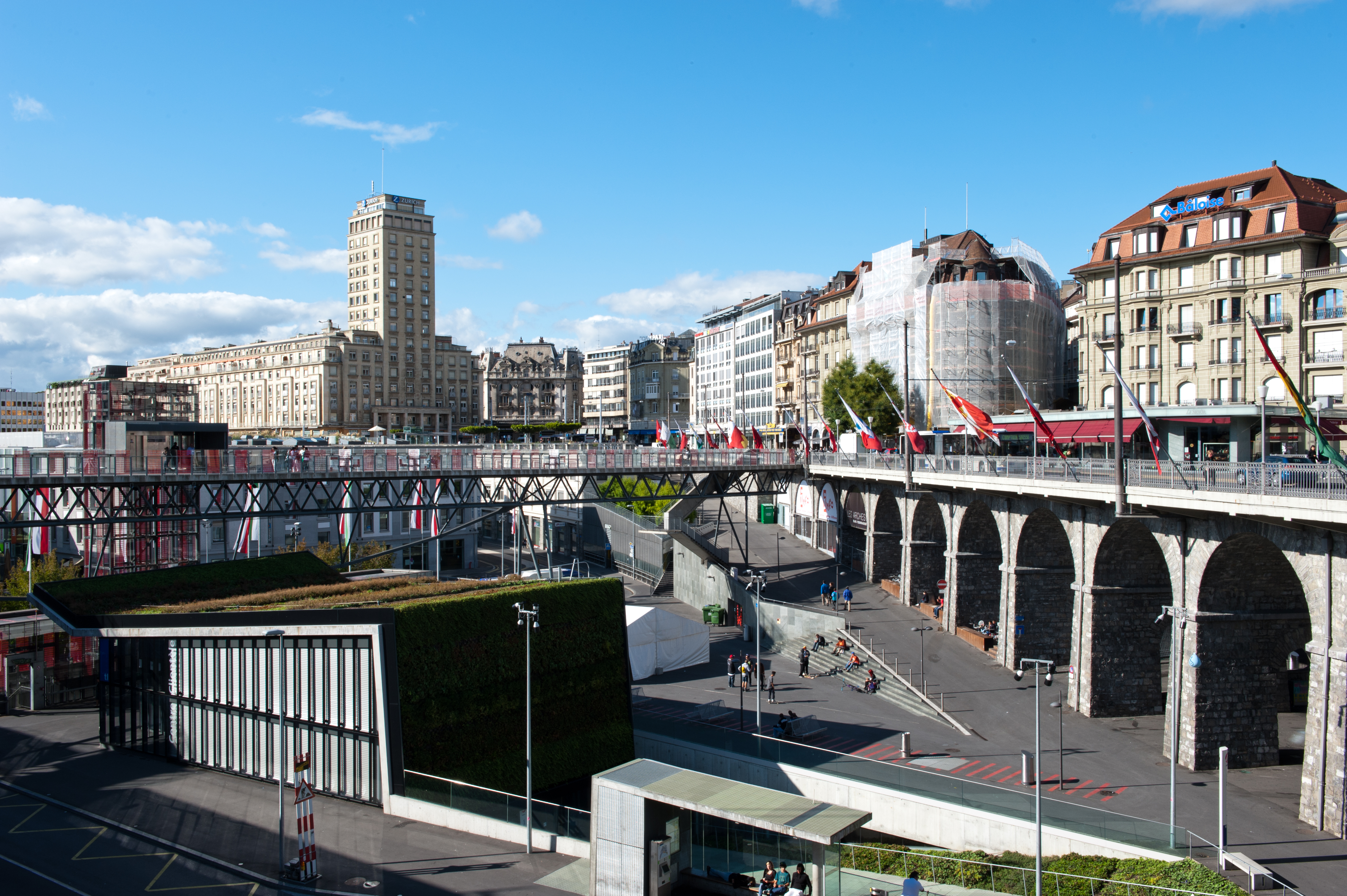 Bel-Air Tower and Grand Pont, Lausanne Tour Bel-Air et Grand Pont, Lausanne